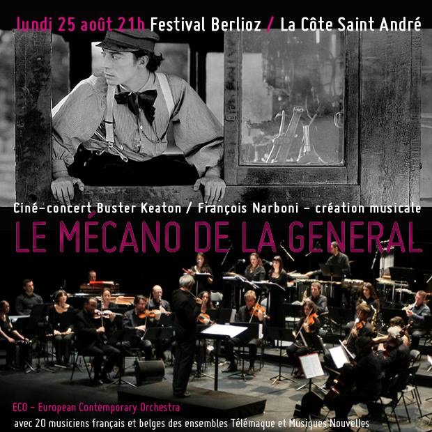 "Le Mécano de la General" ("The General") a movie-concert de François Narboni (2014)